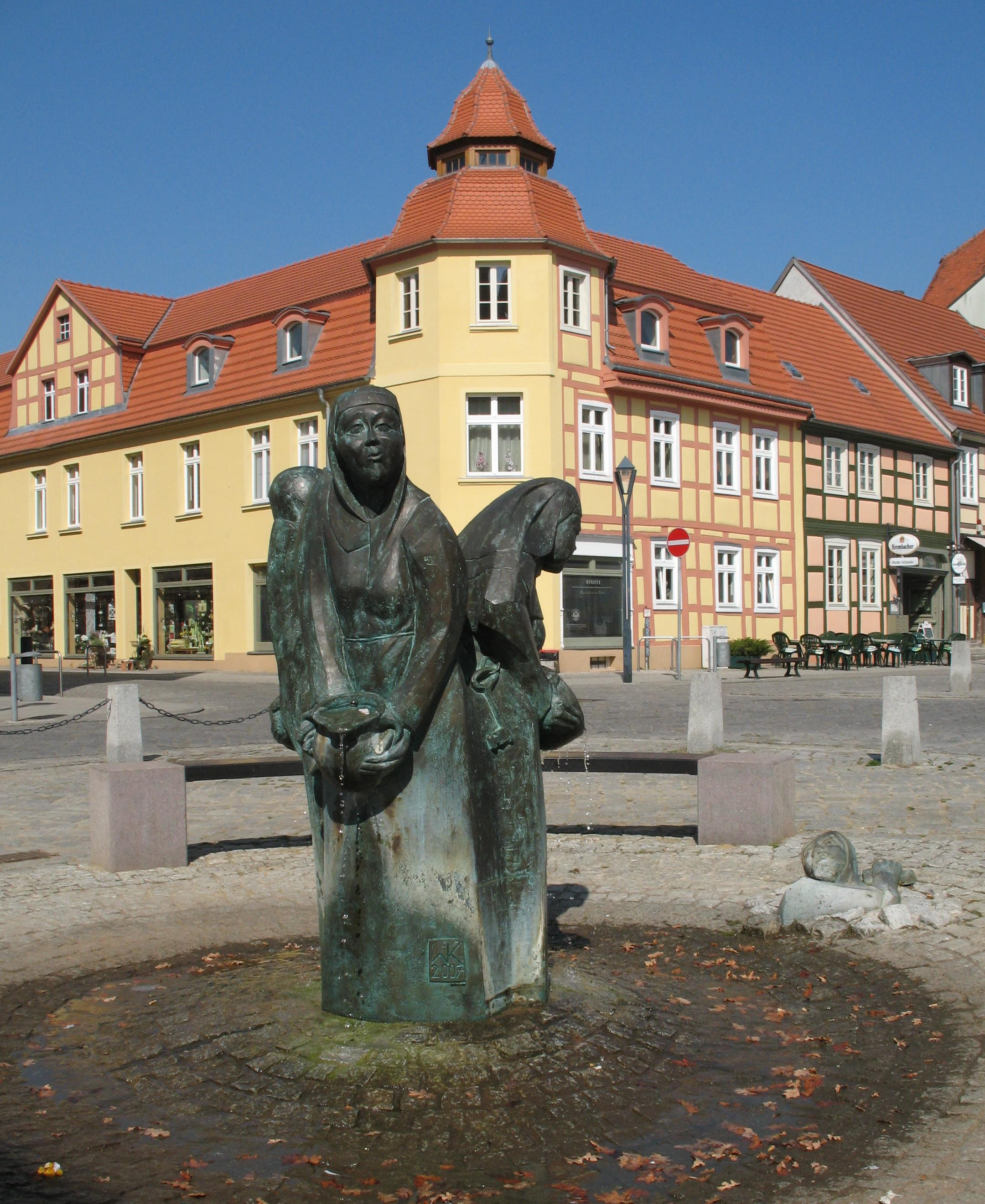 Fountain by Jan Witte-Kropius in Kyritz in Brandenburg, Germany